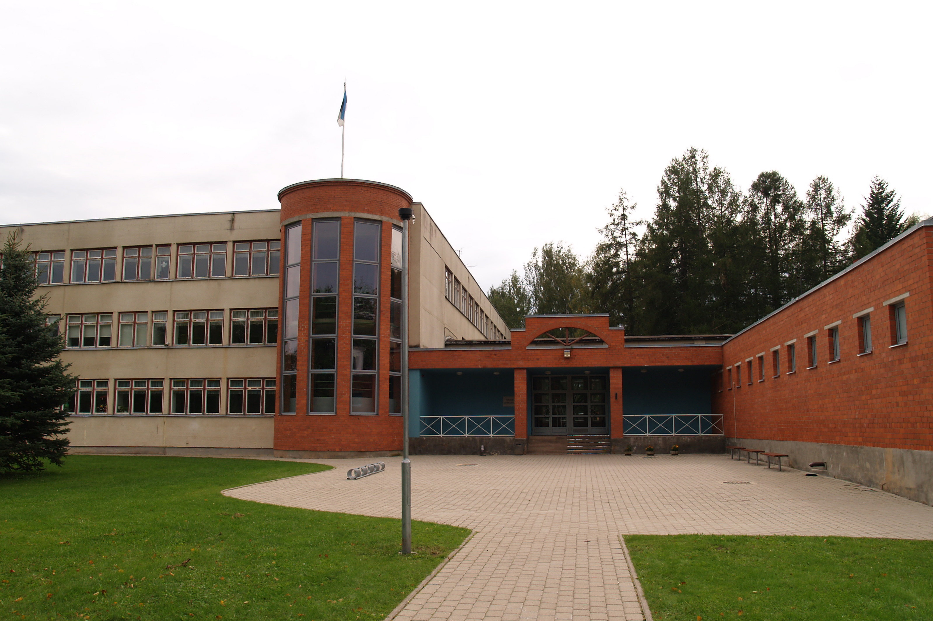 Tarvastu Gymnasium in Viljandi County, Estonia.